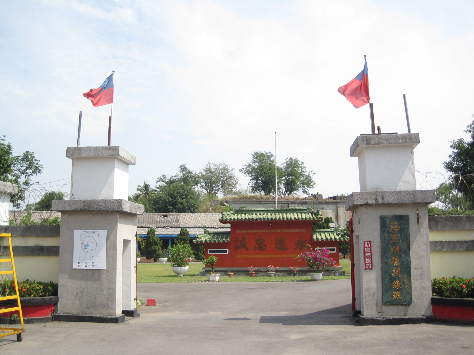 Main Gate of Former Japanese Navy Fongshan Communication Center